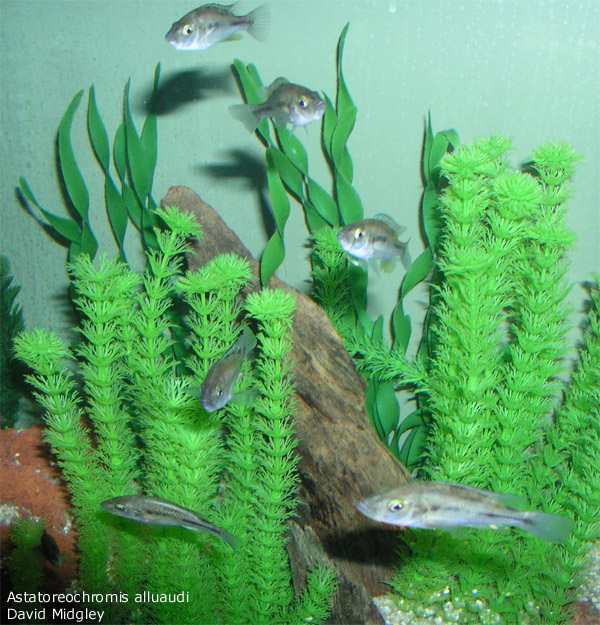 Photo: Dr. David Midgley own photo. Category:Cichlid images